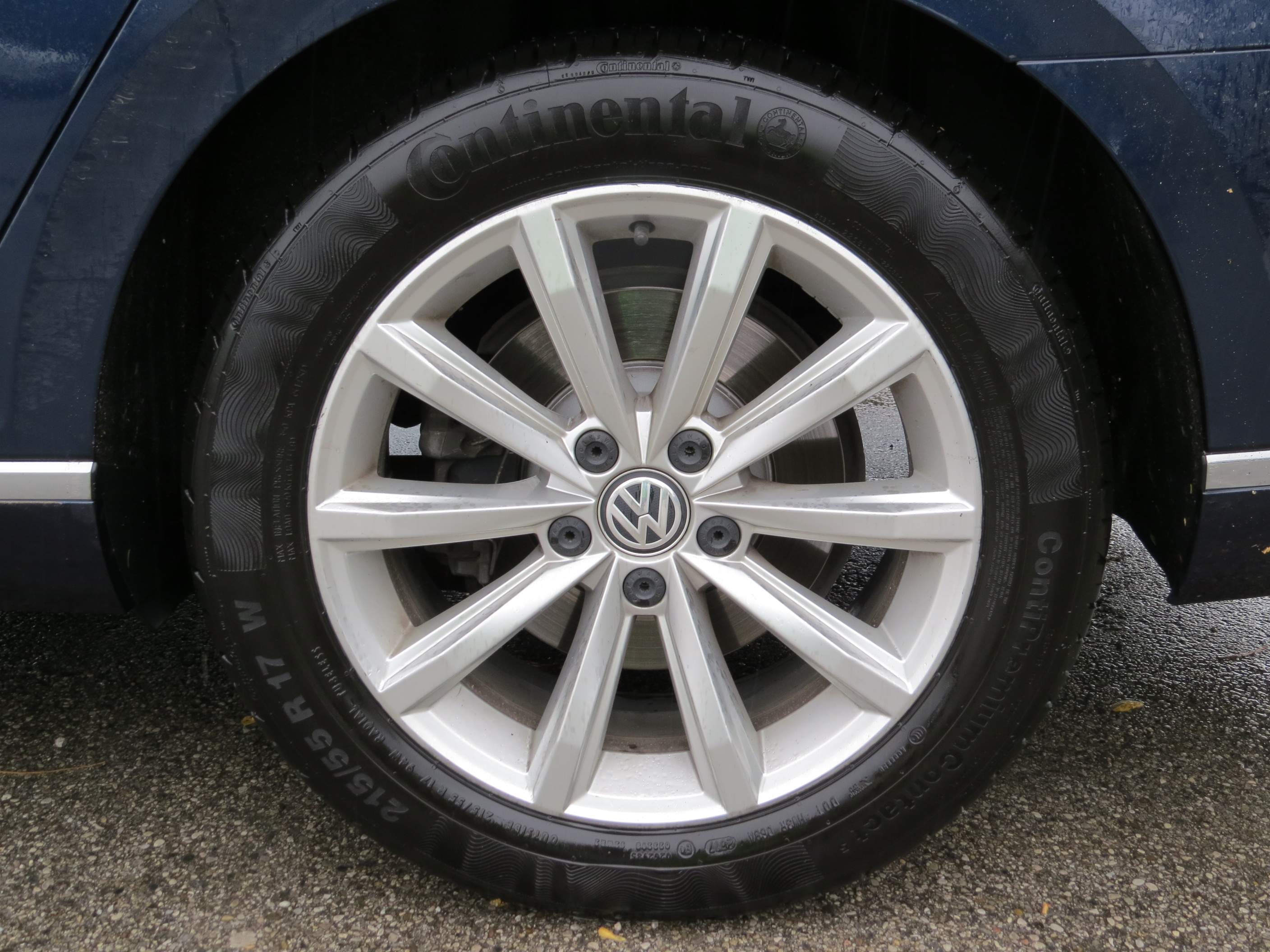 Continental ContiPremiumContact 5 215/55 R 17 94 W tire at Bahnhof Böheimkirchen